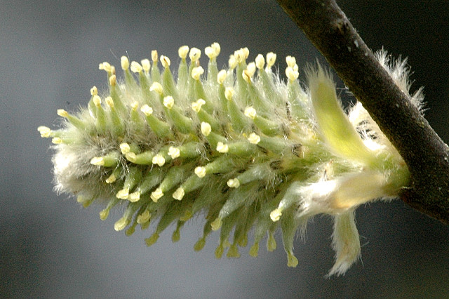 Salix caprea from Commanster, Belgian High Ardennes .